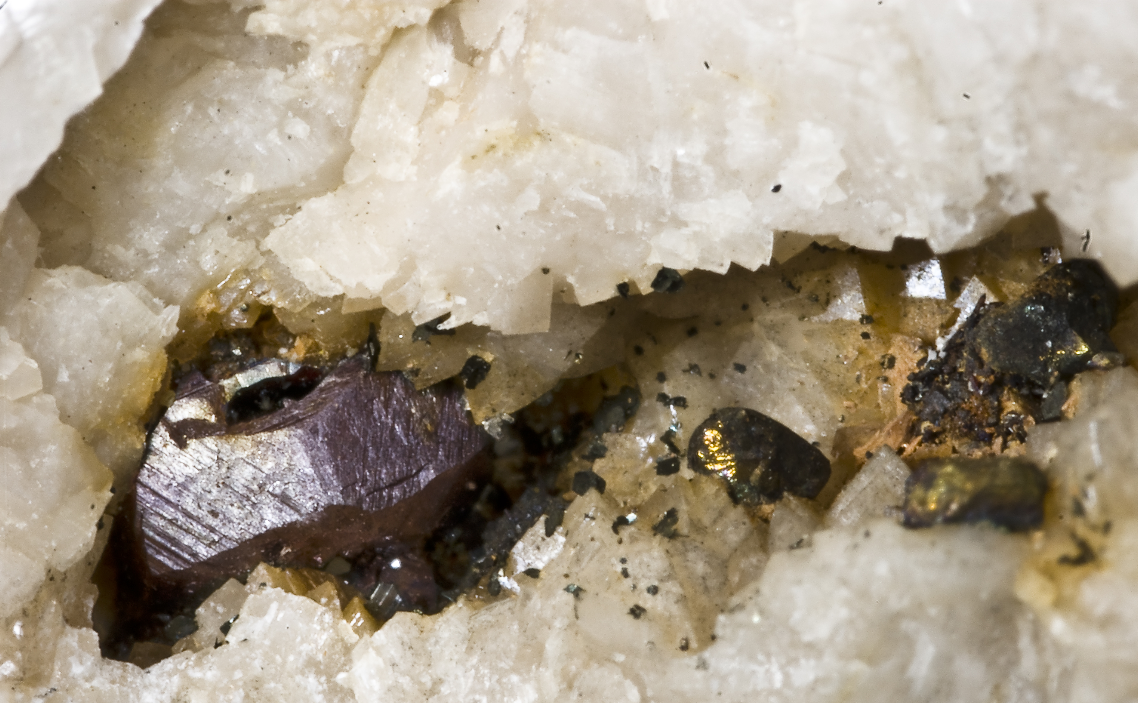 Ankerite, Pyrargyrite and Stephanite (View 1.5cm) Locality: Grube Gnade Gottes, St Andreasberg, Revier St Andreasberg, Harz, Lower Saxony, Germany